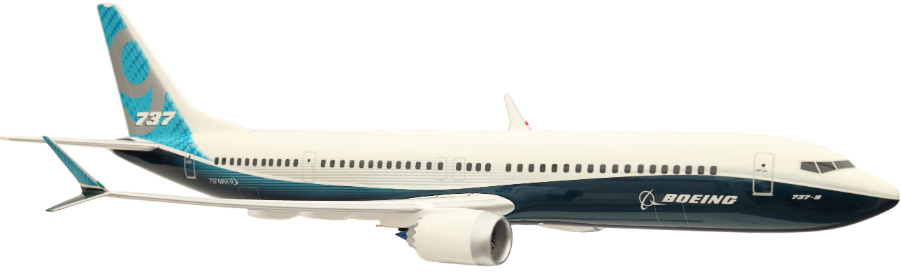 ILA Berlin Air Show 2012 ; Boeing 737-9 MAX (scale 1/40) clean background